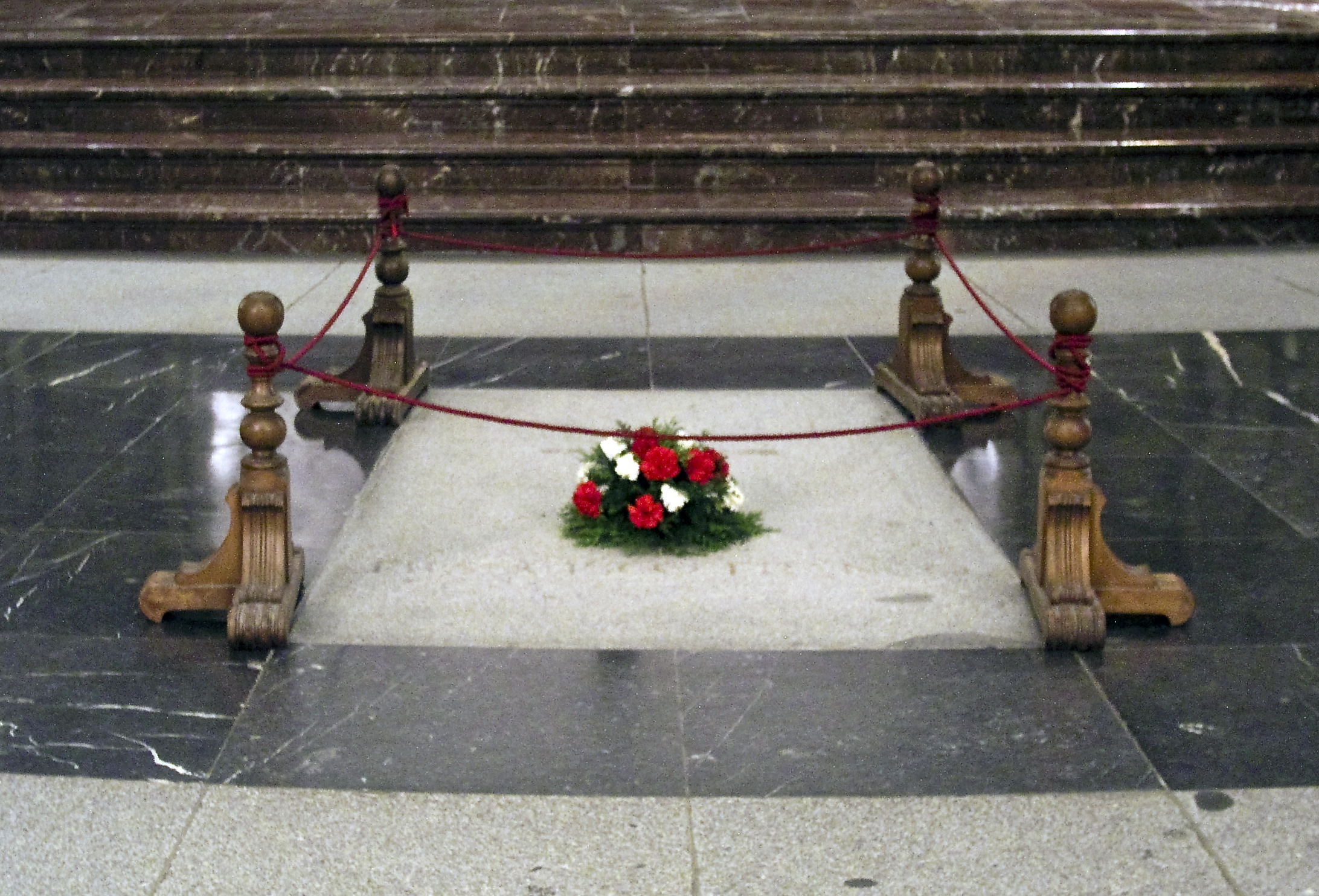 The tomb of Francisco Franco, at Valle de los Caídos, Spain.